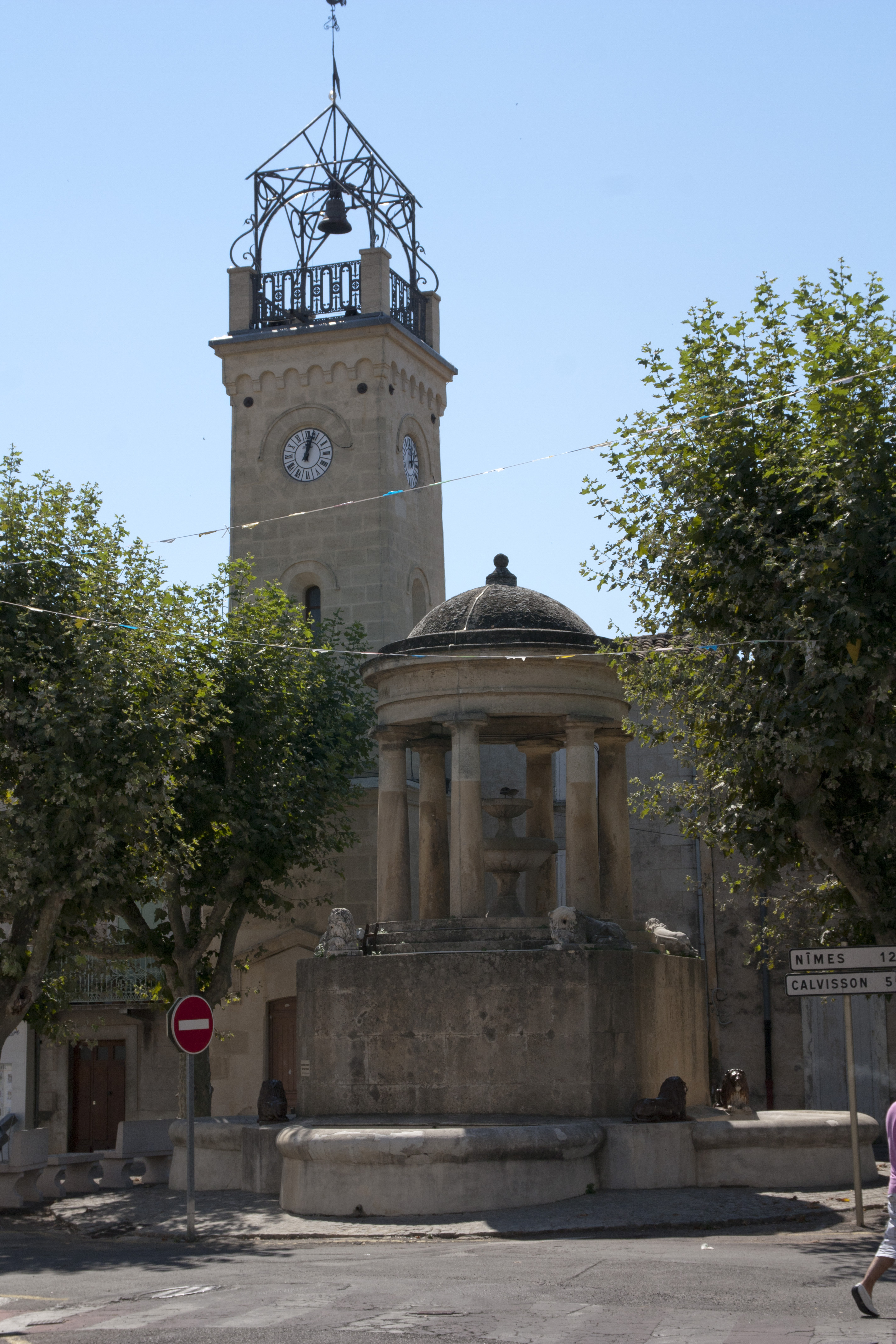 Clock place in Clarensac..